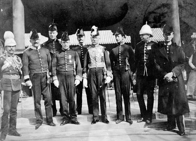 Rt. Hon. Sir John Jordan, British Minister to China, in the Forbidden City to present letters of credence to the new Prince Regent. Hon. W.L. Mackenzie King is fourth from left. Sir John Jordan is sixth from left. Others in the group include Sir Alexander Hosie, Colonels Anderson and Michael Willoughby, Dr. Gray, and three Secretaries of the British Legation in Peking.